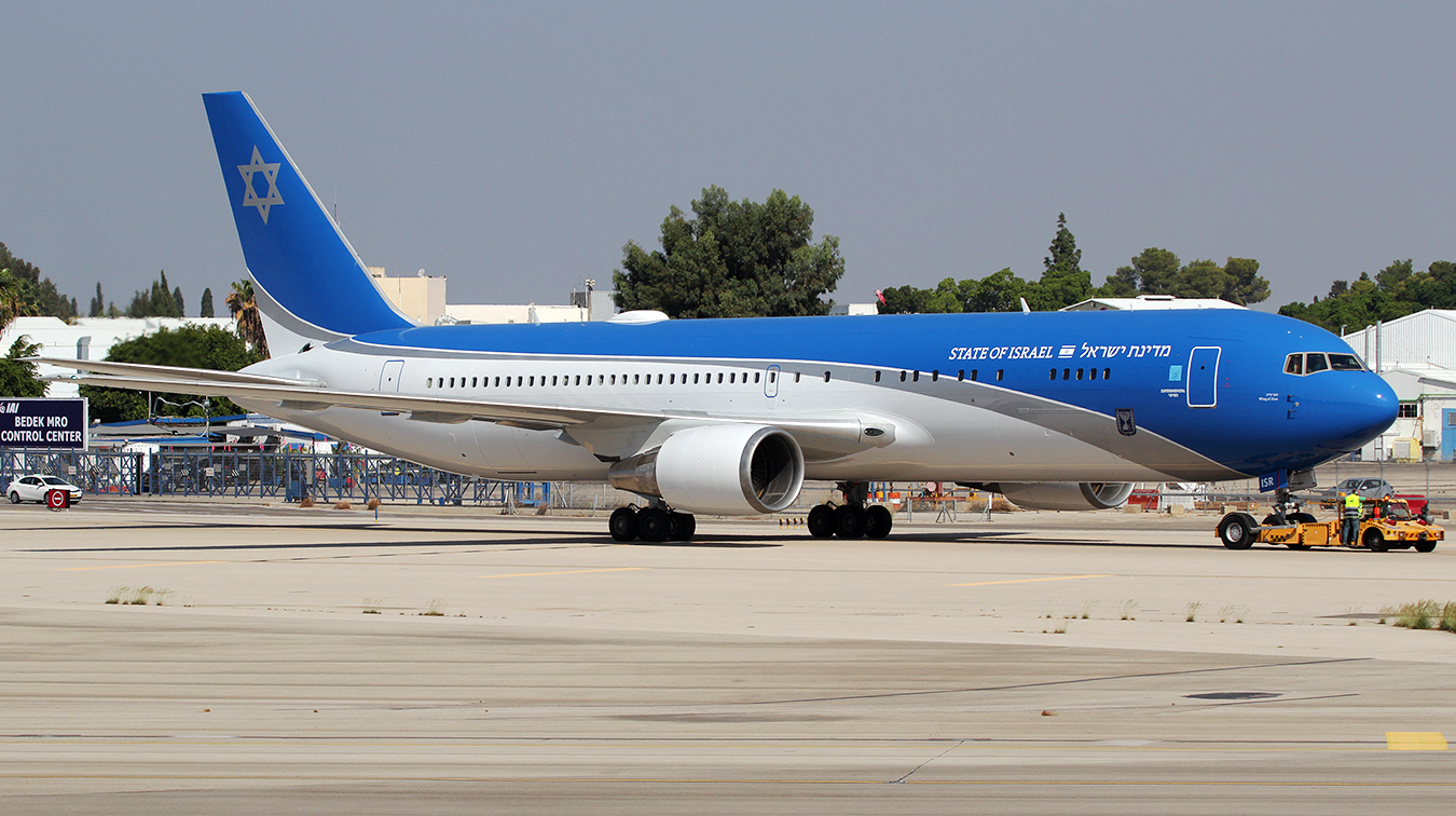 The "Israeli Air Force One" a customized Boeing 767 under going final tests.